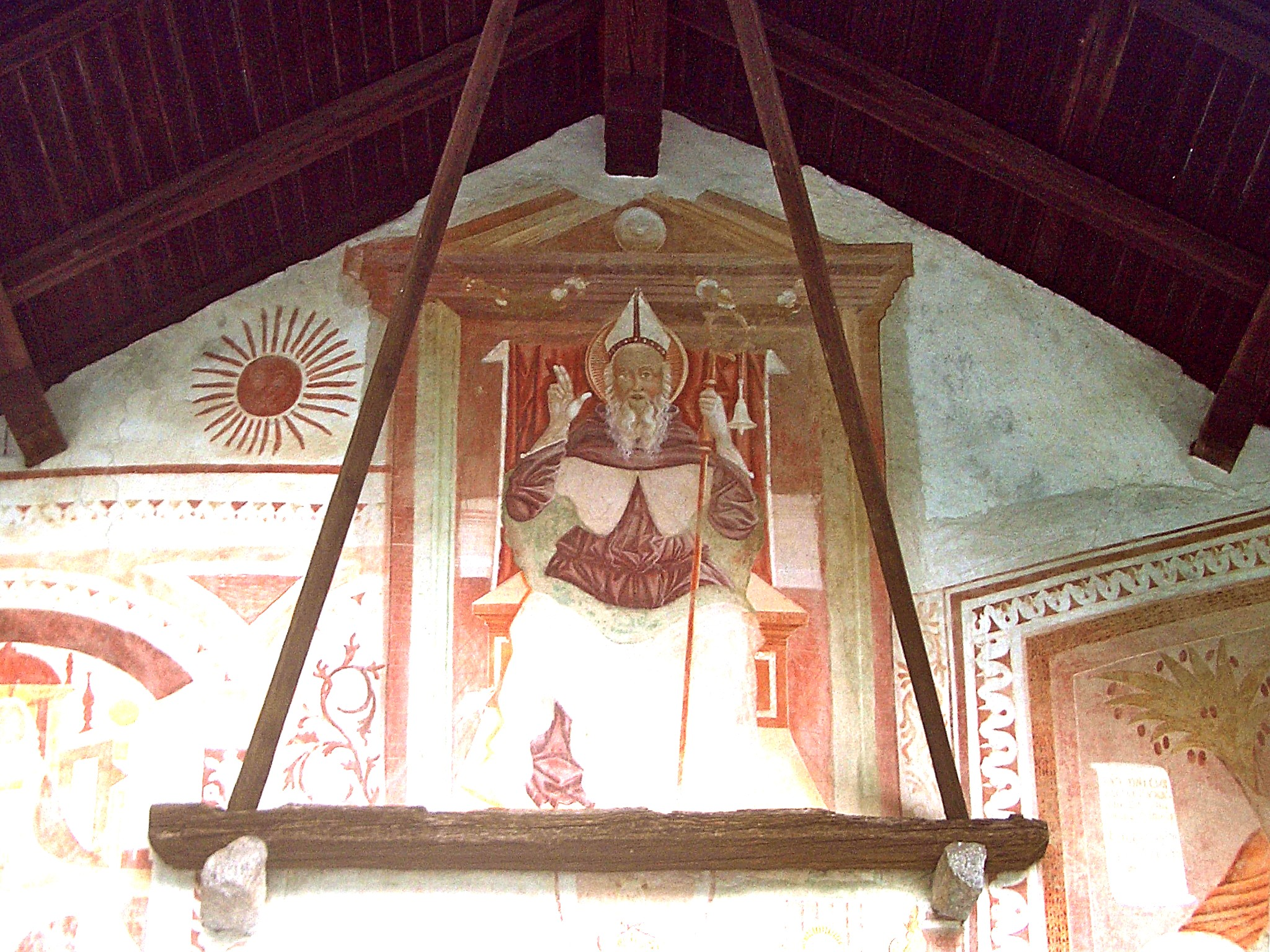 Dionisio Baschenis, St. Anthony the Abbot, fresco, 1474, Pelugo, Sant'Antonio Abate church